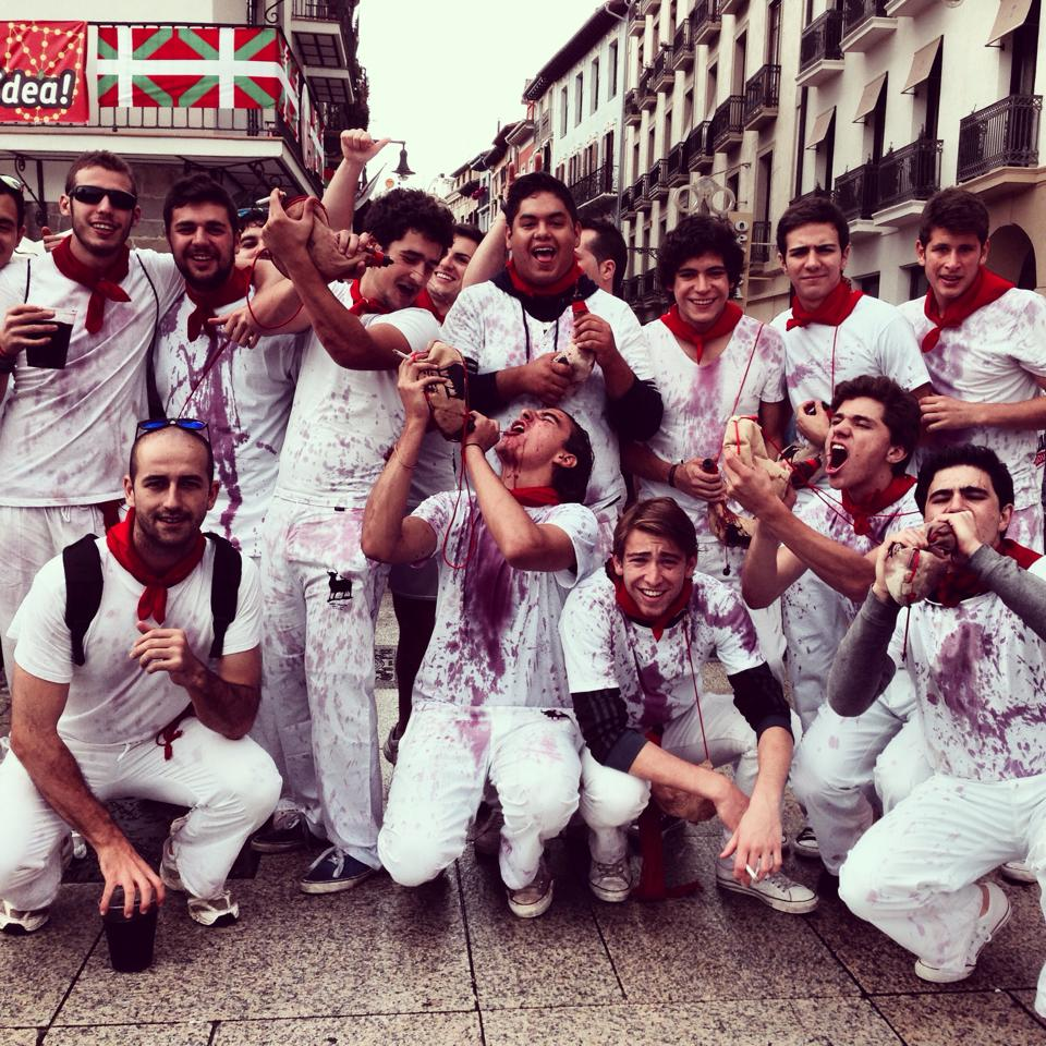 Plaza consistorial Spain,Pamplona in the "chupinazo" 6-july-2014 before watching the bullfight